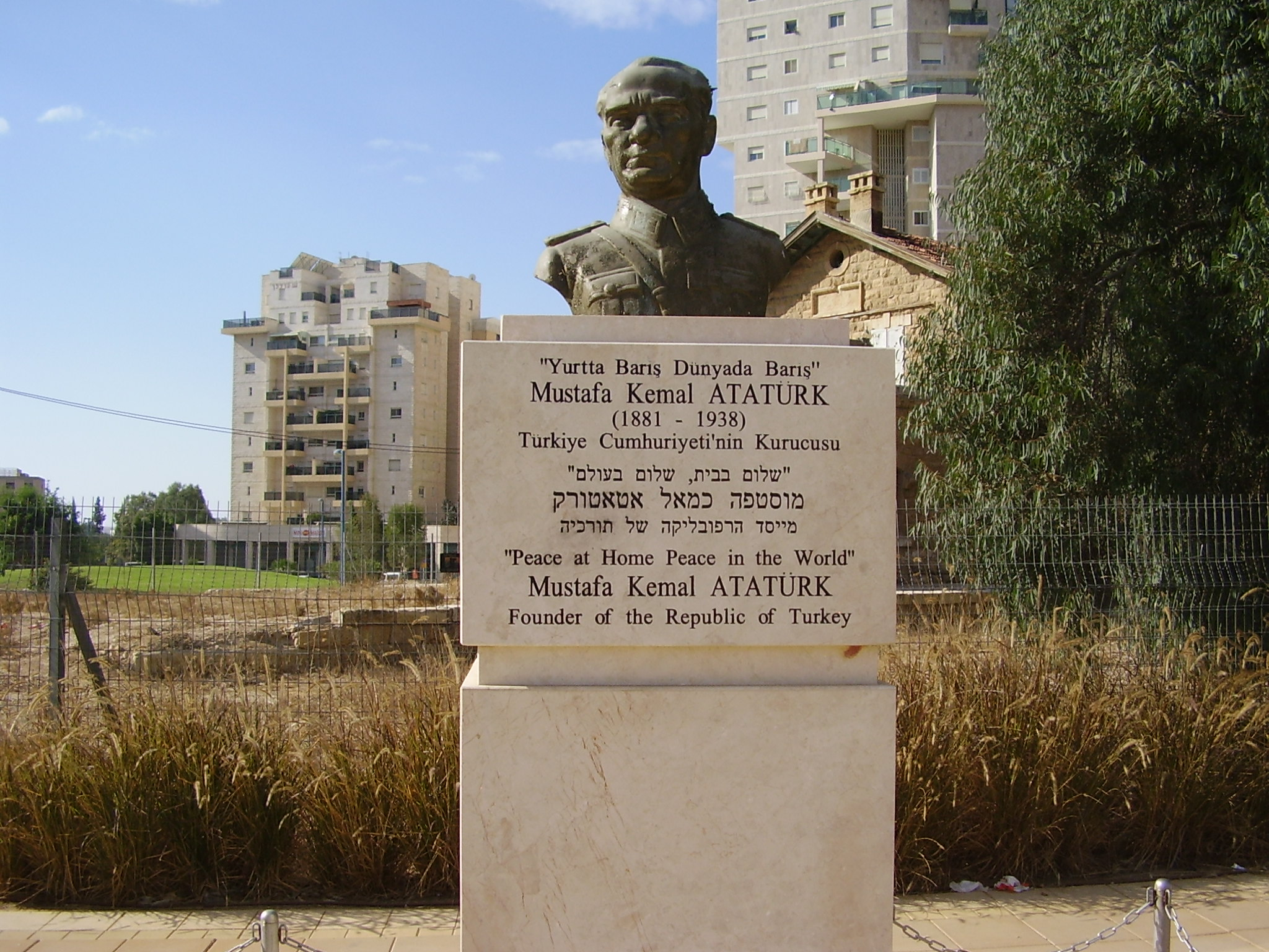 Ataturk memorial next to the Turkish Soldiers Monument in Be'er Sheva